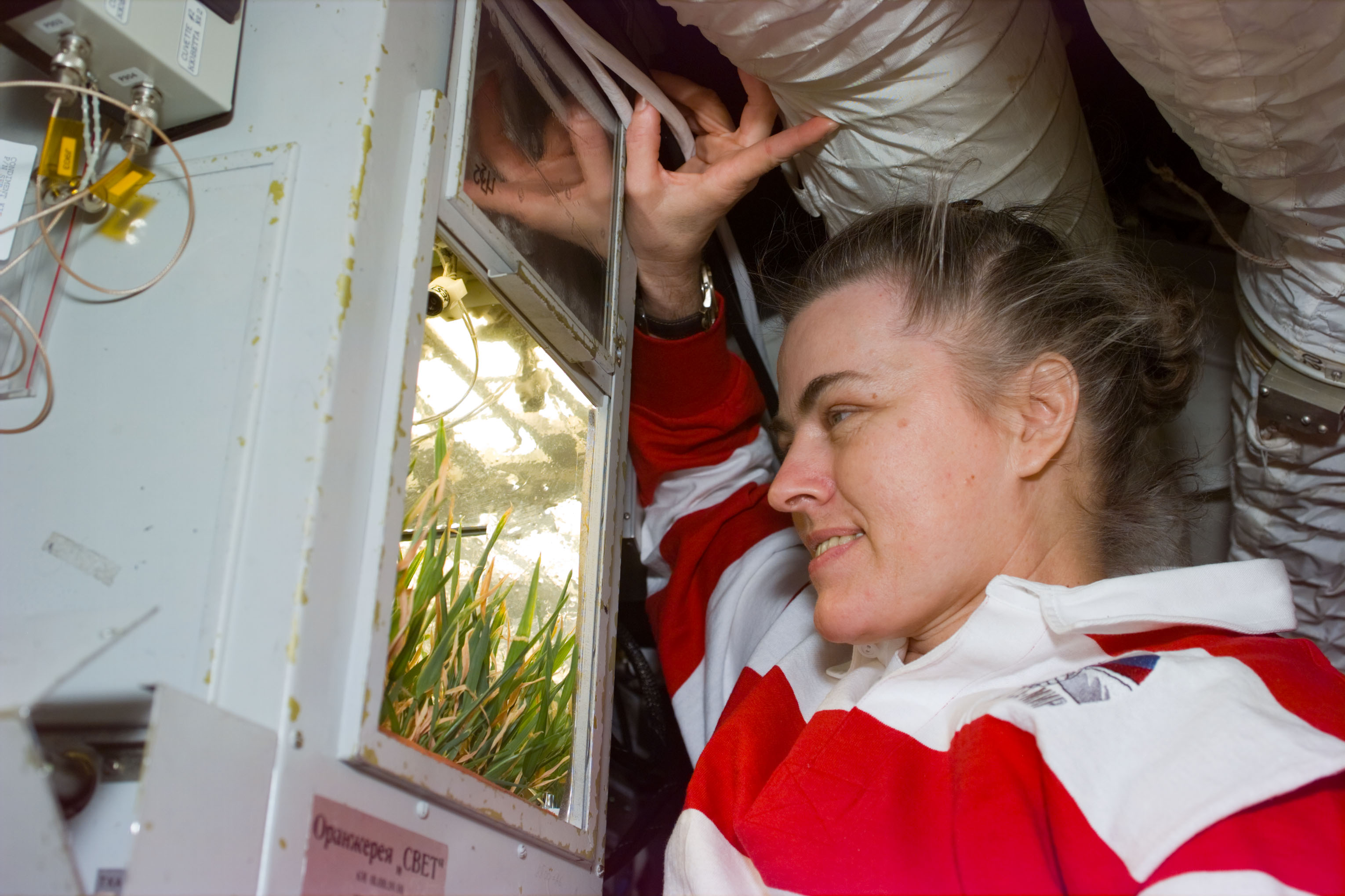 Astronaut Shannon W. Lucid, former cosmonaut guest researcher, checks on wheat plants aboard Russia's Mir Space Station, during Flight Day 8. She is photographed looking at wheat growing in the Svet or greenhouse, which is located in the Mir space station Kristall module. Image #: s79e5277 Date: September 23, 1996